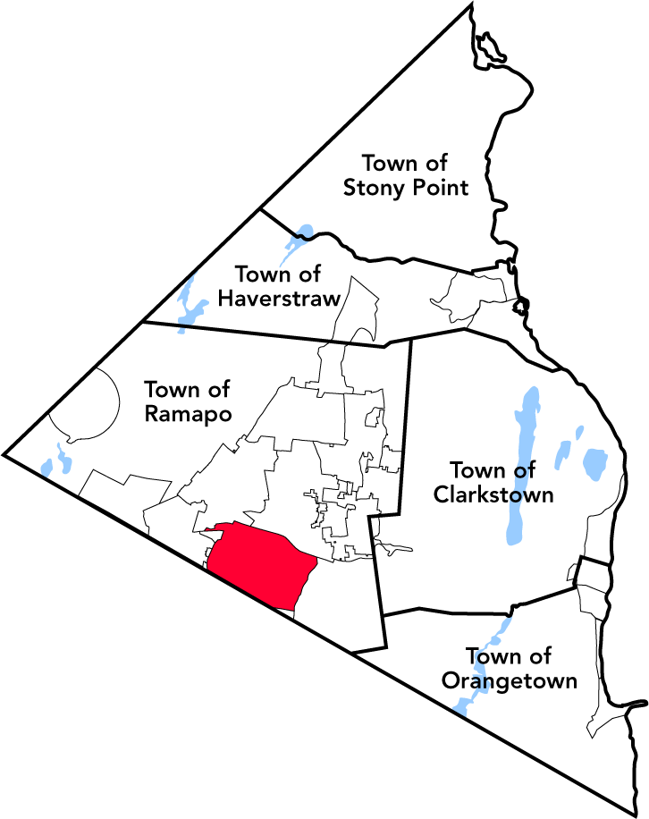 I made this file. :: Salvo (talk) 09:09, 20 February 2006 (UTC)